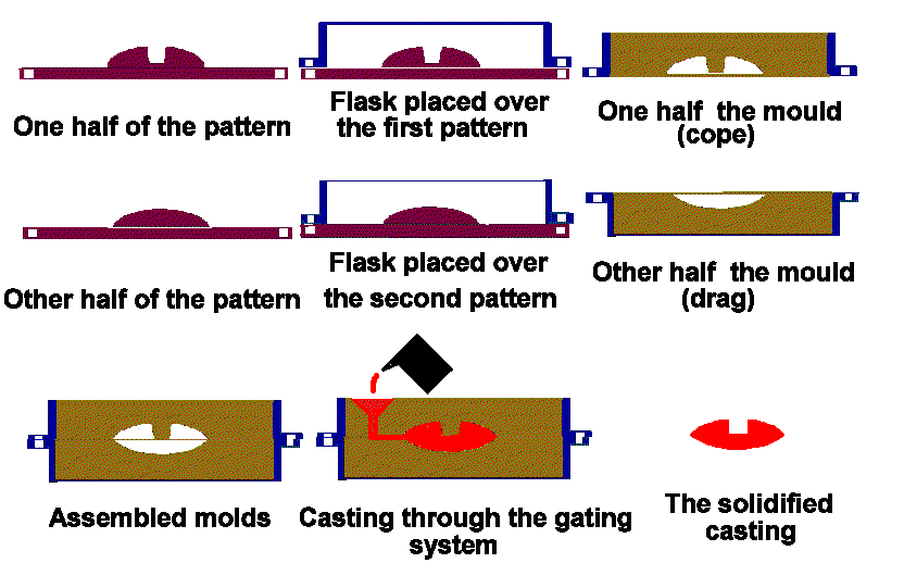 Machine working principle